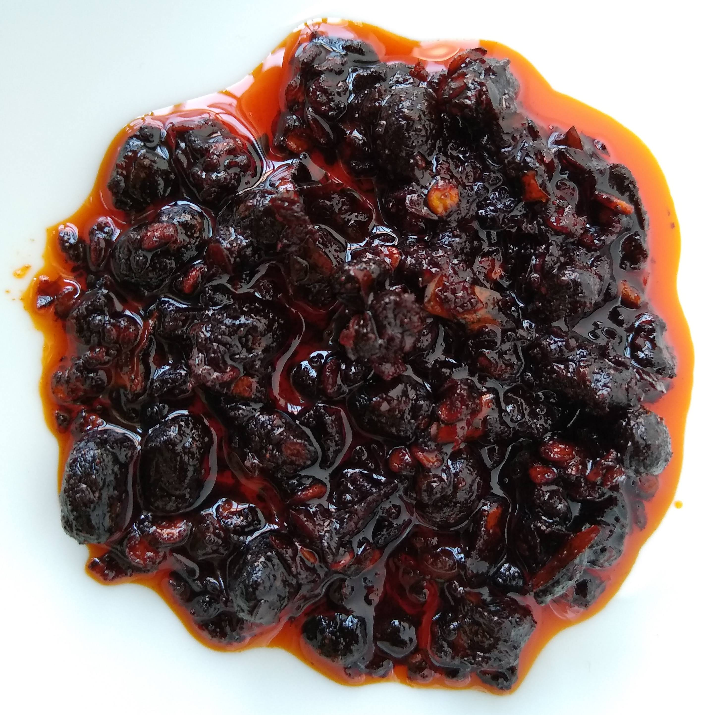 Laoganma, a popular sauce in China. Oil, chili pepper, and fermented soybeans.